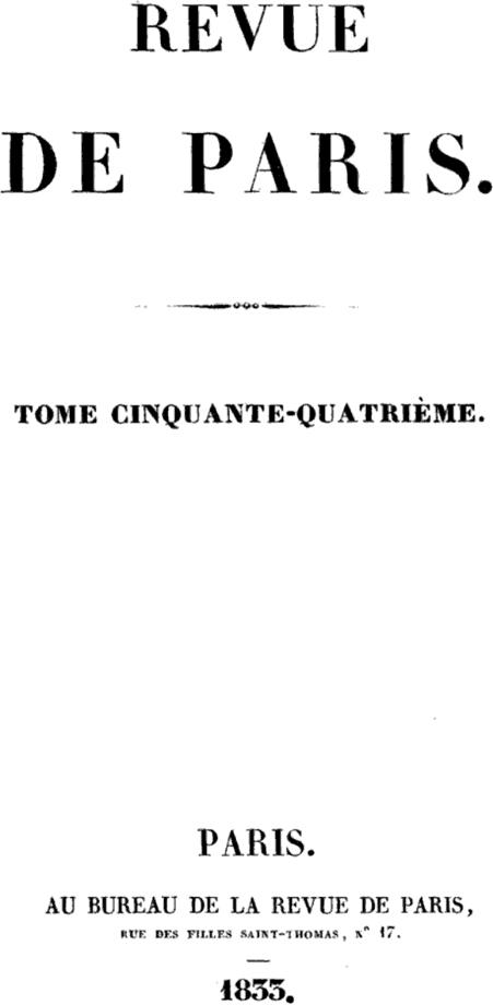 First page of 19th-Century version of original Revue de Paris a French literary magazine founded in 1829 by Louis Désiré Véron.